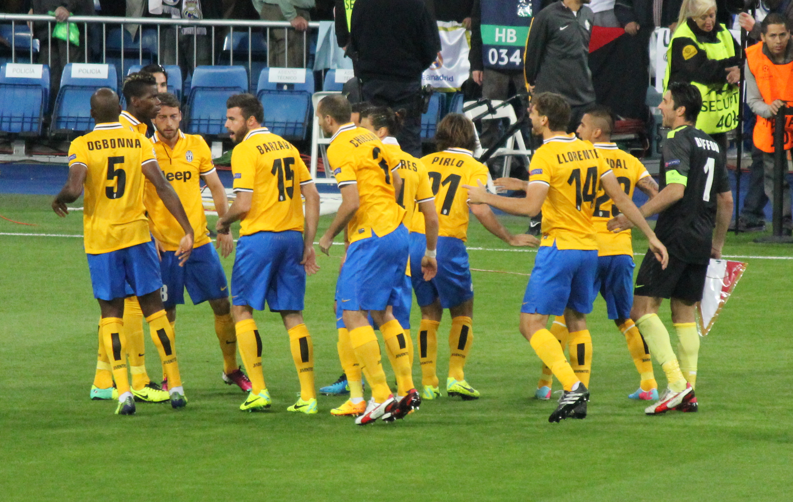 Real Madrid vs Juventus, 24 October 2013 Champions League